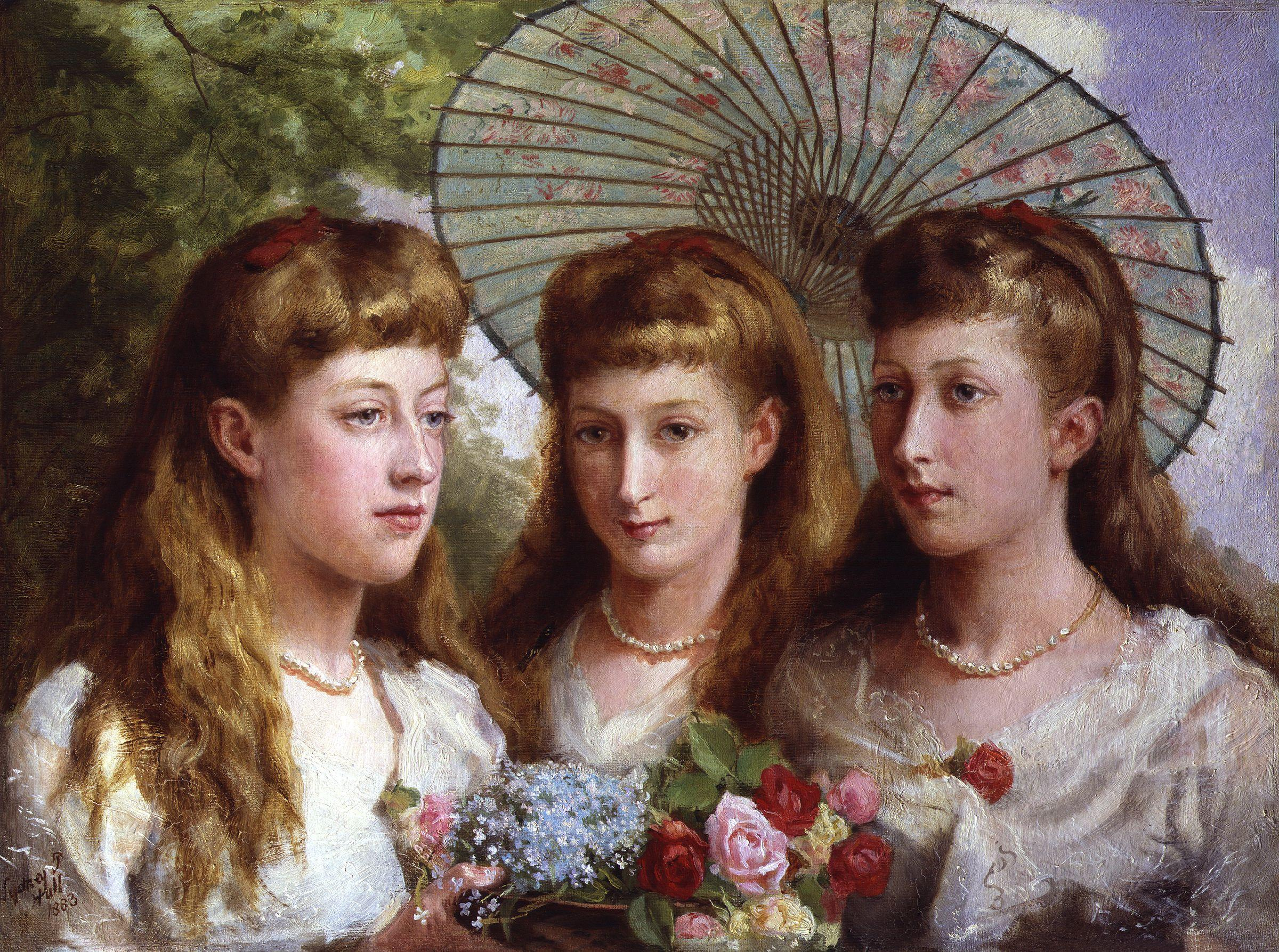 Sitters: Princess Louise Victoria Alexandra Dagmar (1867-1931); Maud, Queen of Norway (1869-1938) and Princess Victoria Alexandra of Wales (1868-1935).